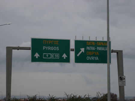 Road sign of Ovria exit on motorway Greek National Road 9 in (Achaia), Greece.